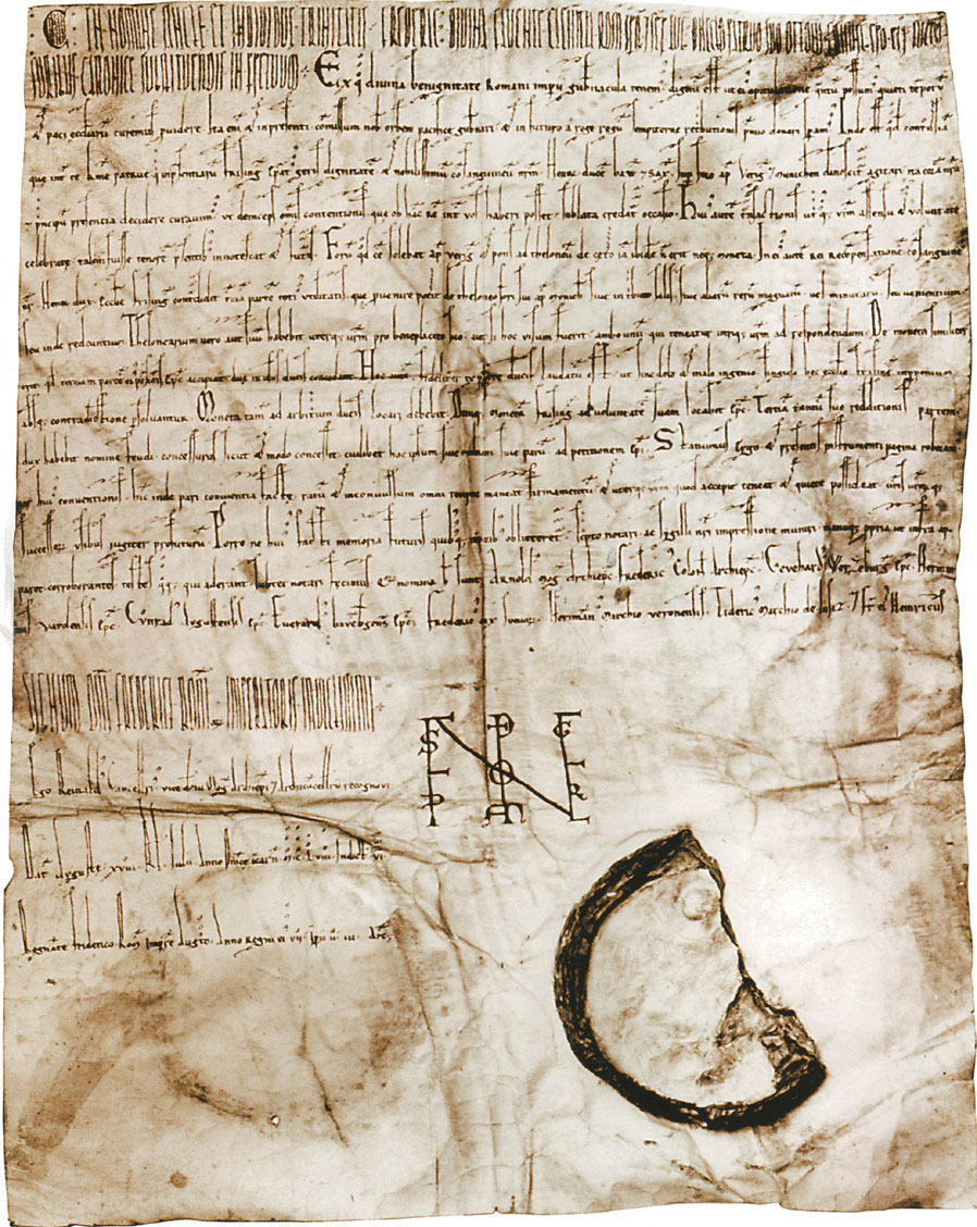 The Augsburger Schied (Augsburg Decision) by emperor Frederick I Barbarossa confirmed the transfer of toll and markett to Munich which was then newly founded by Henry the Lion